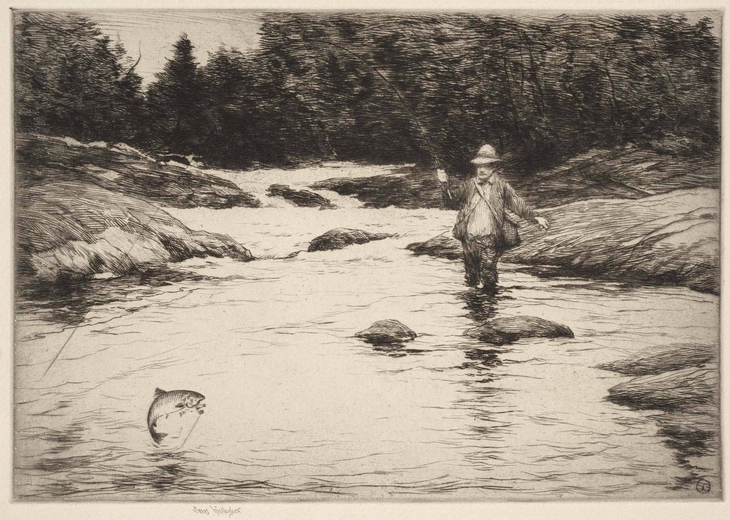 Drawing created by Sears Gallagher